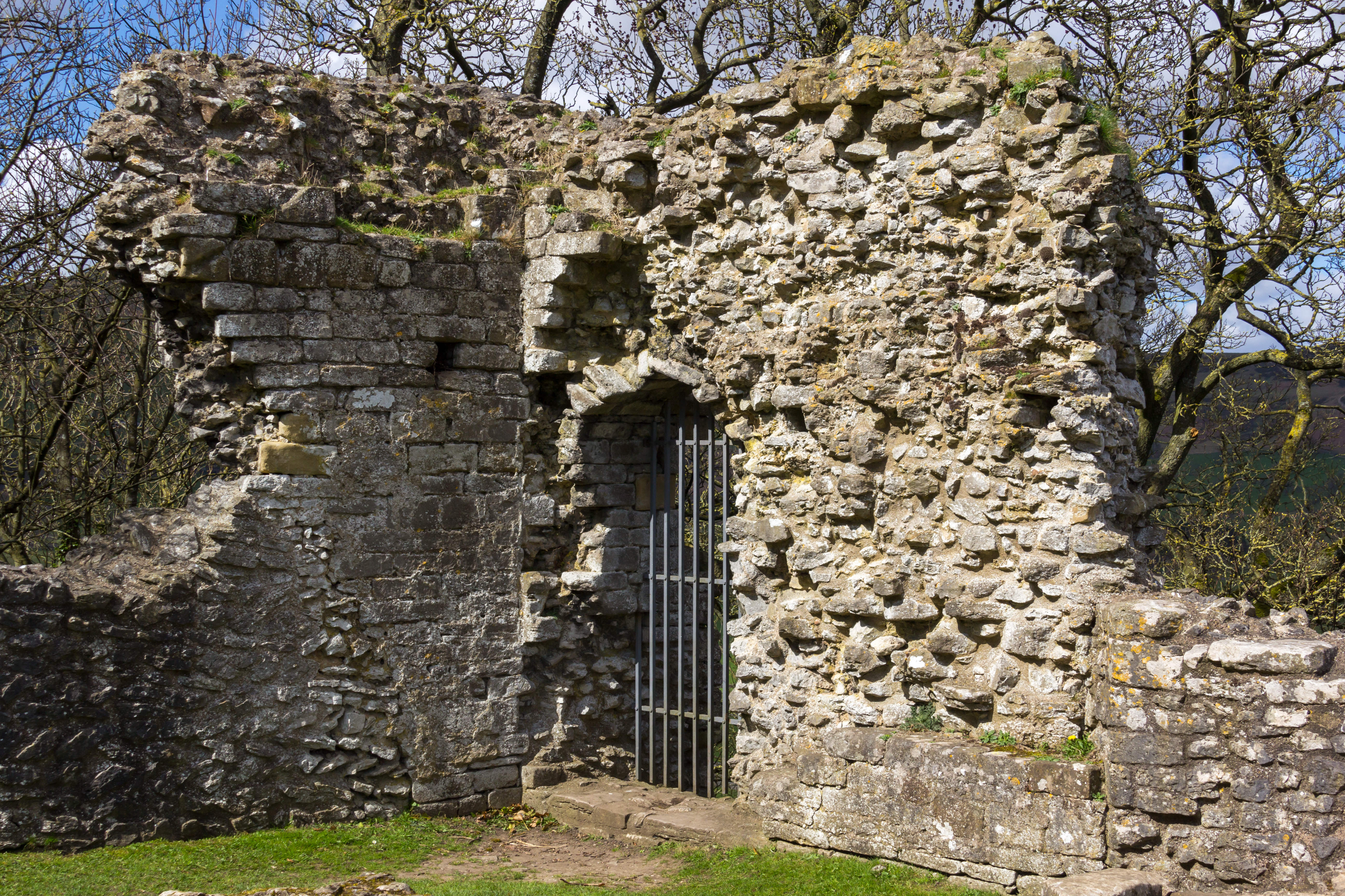 Peveril Castle, Castleton